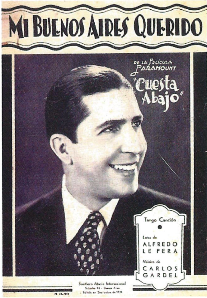 Title of the partitur of the famous tango Mi Buenos Aires querido